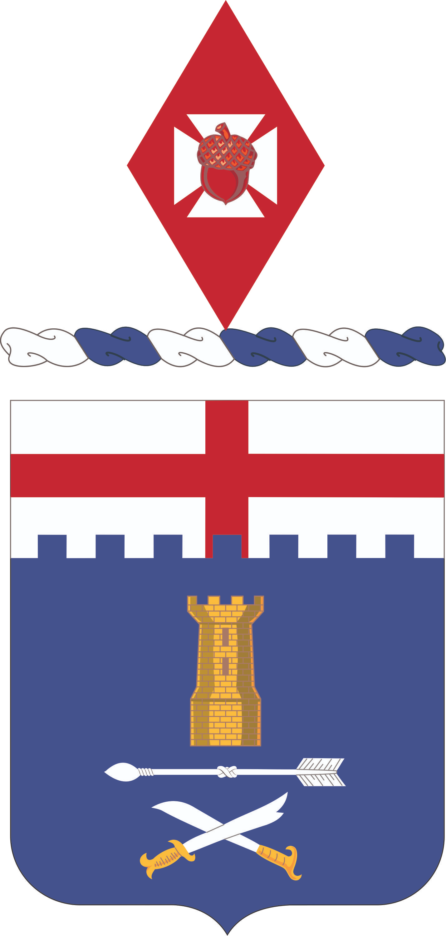 011th Infantry Regiment Coat of Arms